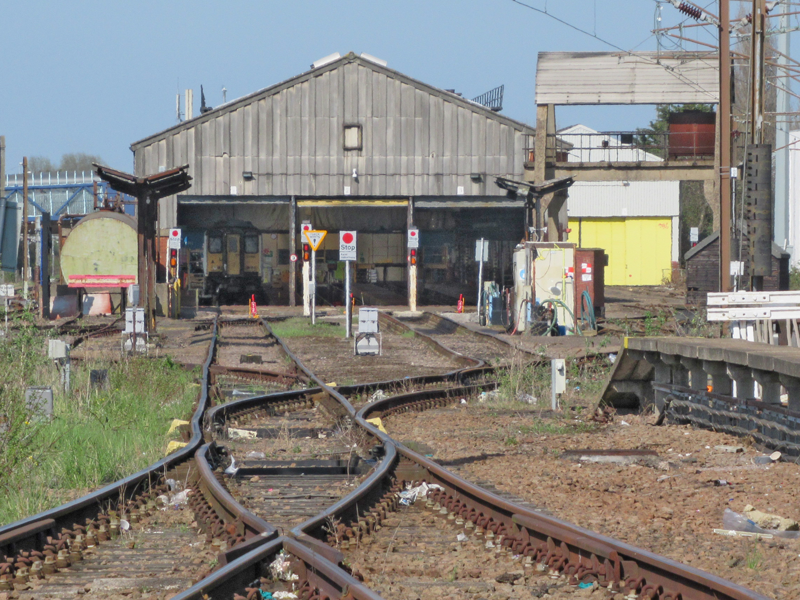 Looking northwards towards Coldham Lane depot from Cambridge carriage sidings